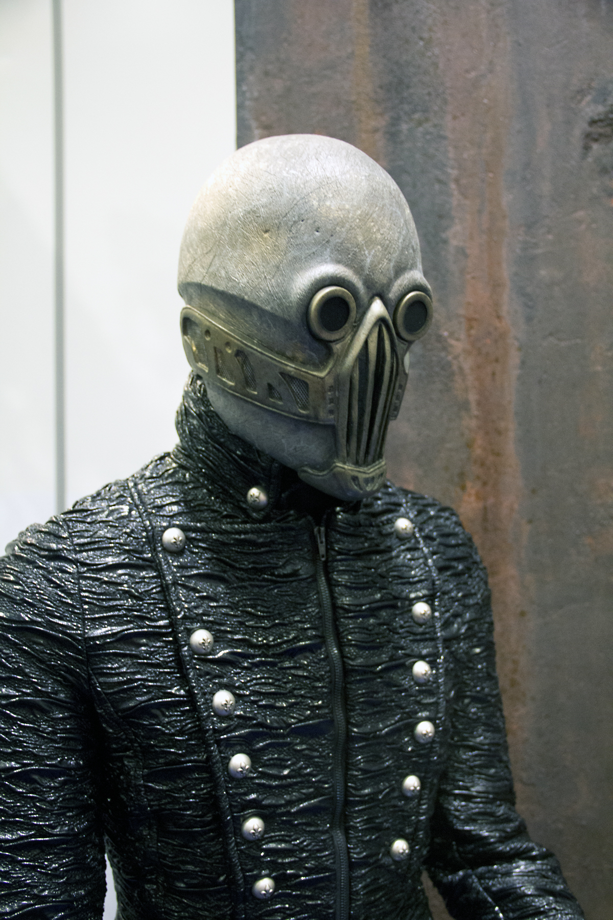 Doctor Who 50th Celebration Doctor Who Experience